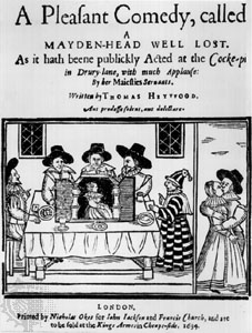 Page de titre de la pièce de Thomas heywood A Pleasant Comedy, Called a Maidenhead Well Lost; illustration de 1634